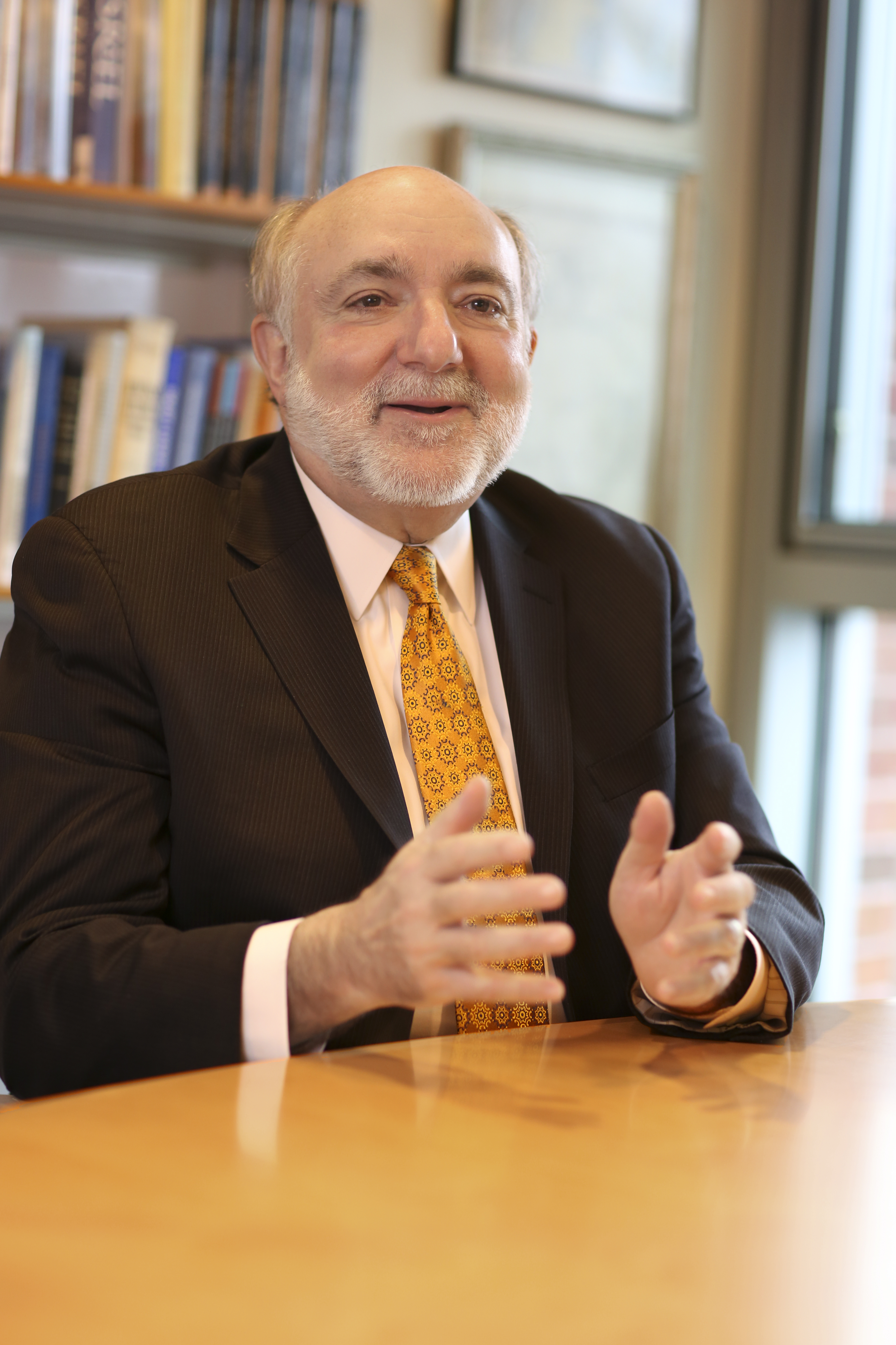 Photo of Professor David Ellenson in his office at Brandeis University